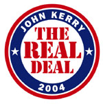 John Kerry 2004 campaign logo)